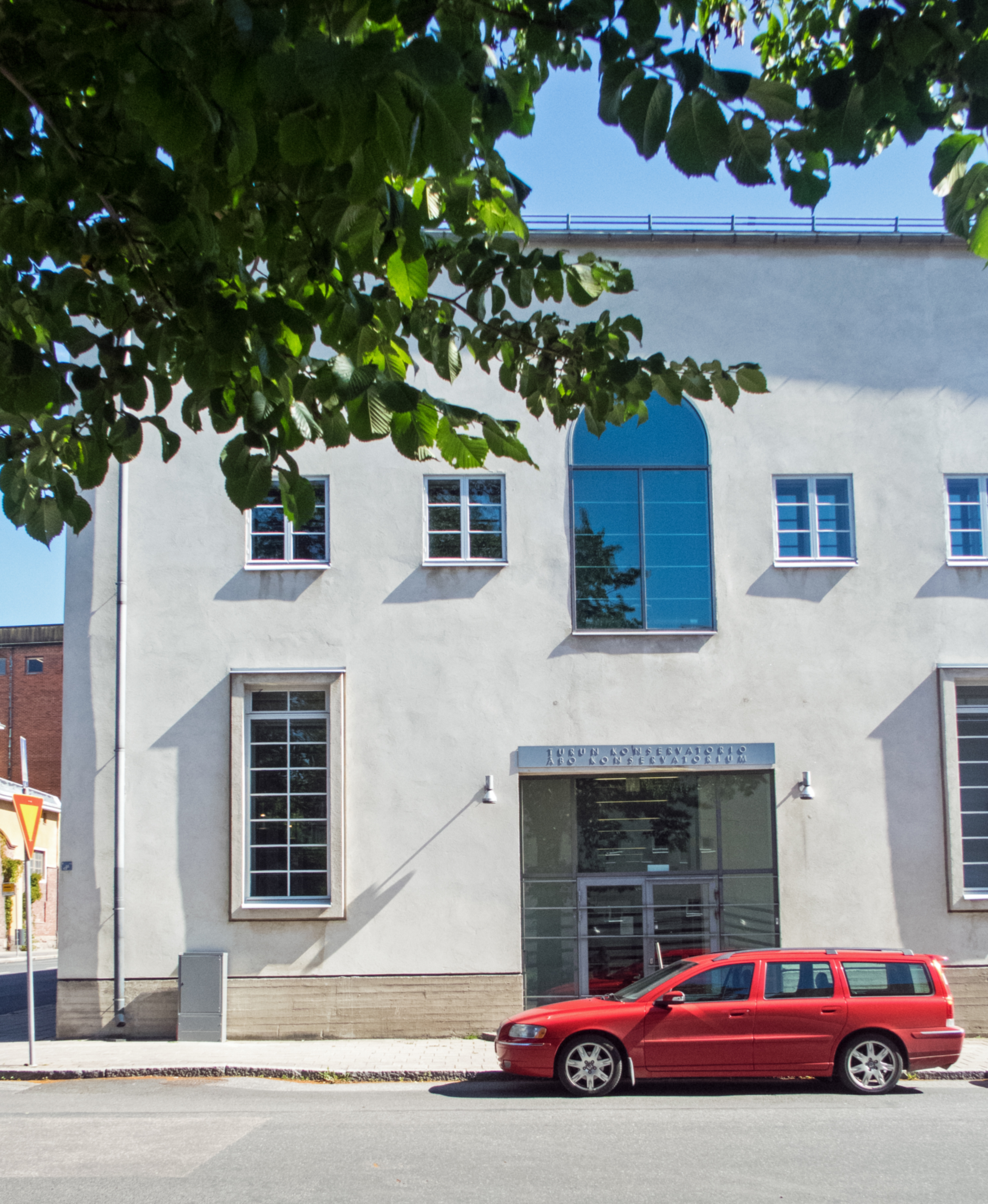 Entrance to the Turku Conservatory on Chrichtoninkatu, off Linnankatu. August 2015.